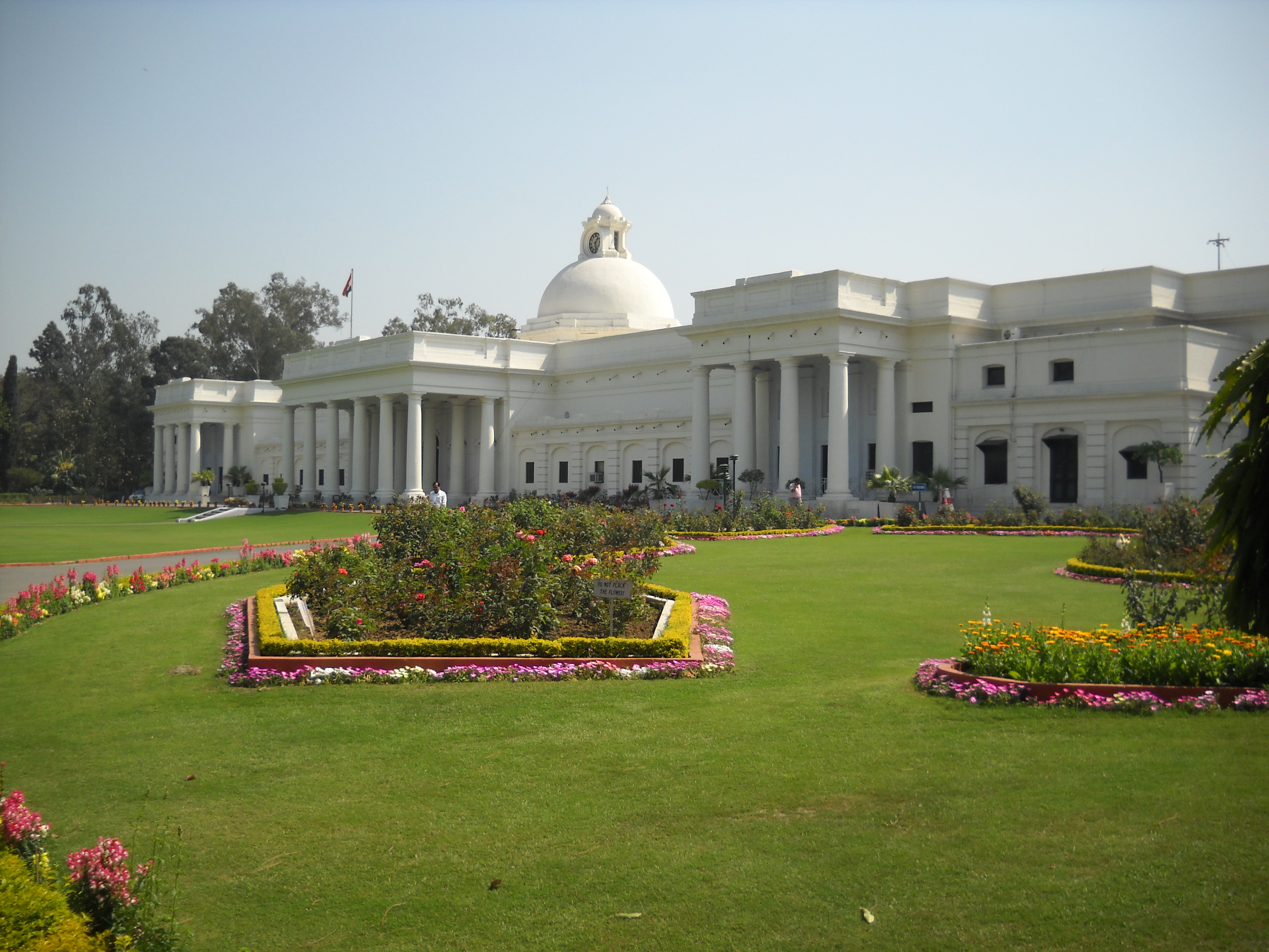 The main senate building of the Indian Institute of Technology, Roorkee, formerly, the Thomason College of Civil Engineering, founded 1847, the oldest engineering college in India.